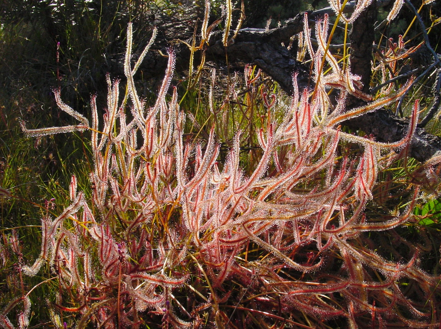 Description:Drosera binata Photo taken by: Noah Elhardt